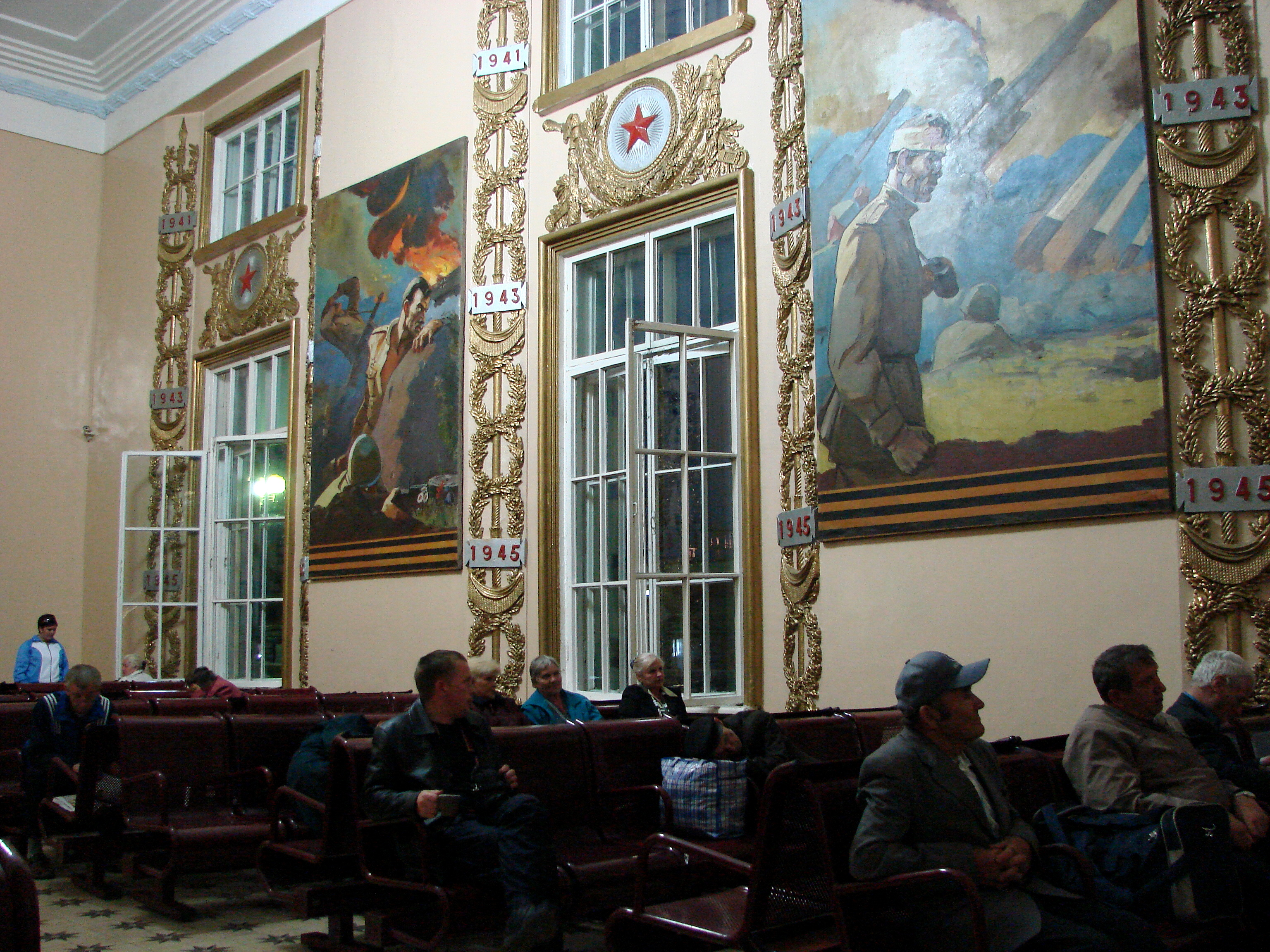 Train station waiting room in Kursk, Russia. Wall display commemorates the Battle of Kursk (July 1943). May 2008.